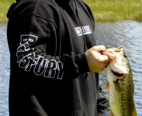 Largemouth Bass Fishing